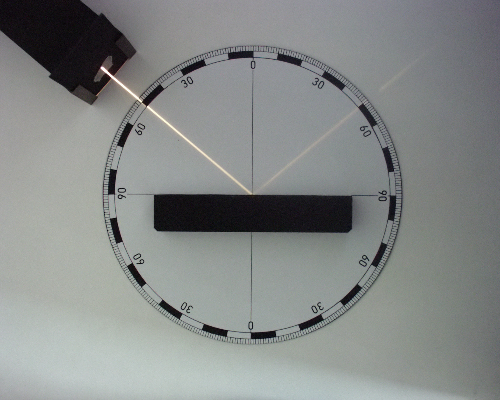 Reflection